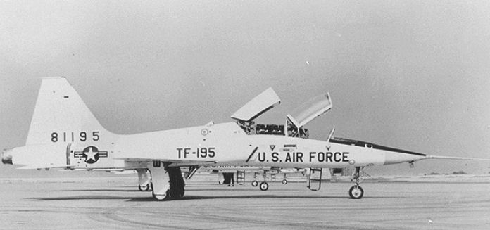 T-38A Supersonic Jet Trainer at Moody AFB, Georgia, 1964